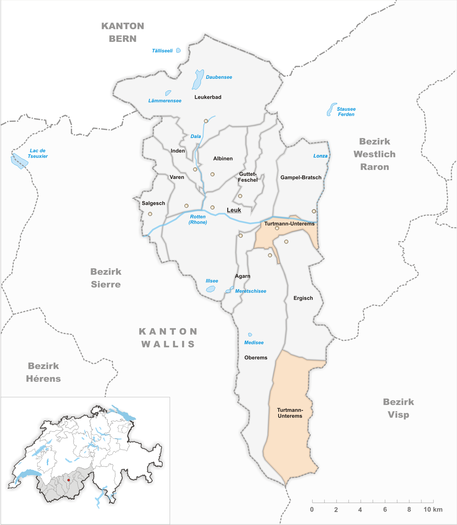 Municipality Turtmann-Unterems